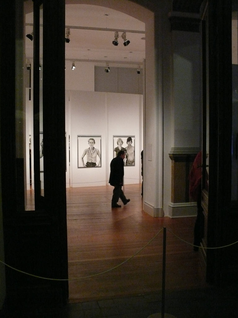 Richard Avedon photo exhibition - in Berlin 2008 - 9